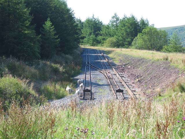 Torpantau Railway Station. Not yet a station, the track has been laid as the northern extension of the Brecon Mountain Railway